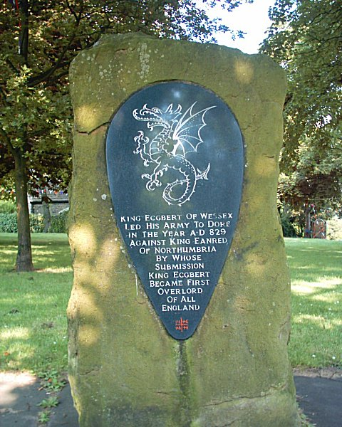 Stone of King Ecgbert, Dore, (Sheffield).